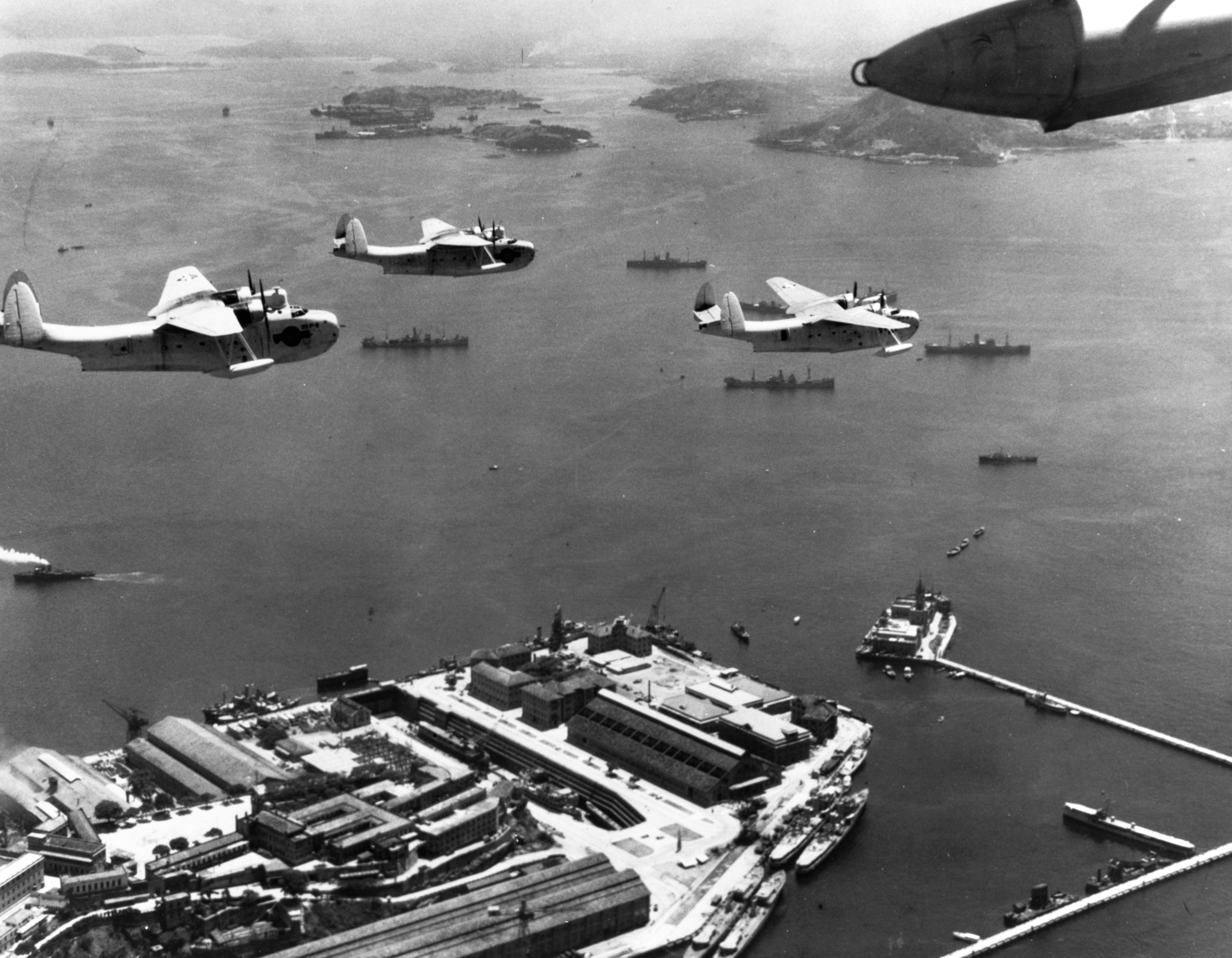 U.S. Navy Martin PBM-3S Mariner of Patrol Bombing Squadron 211 (VPB-211) flying over the Brazilian naval dockyard at Rio de Janeiro, December 1943. Several incomplete destroyers are among the ships at the yard.